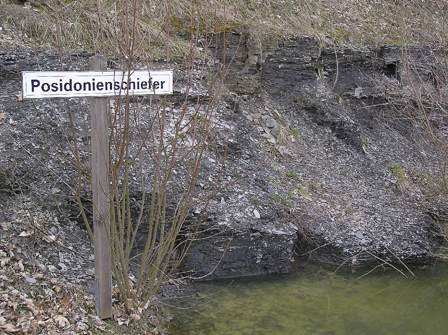 Bituminous claystone, Lower Jurassic, Hesselberg, Middle Franconia. Sedimentary rock of very thin laminated layers (particles less than 0,0002 mm). Rock formation is known for its rich fossil findings, ex. Ichthyosaur.